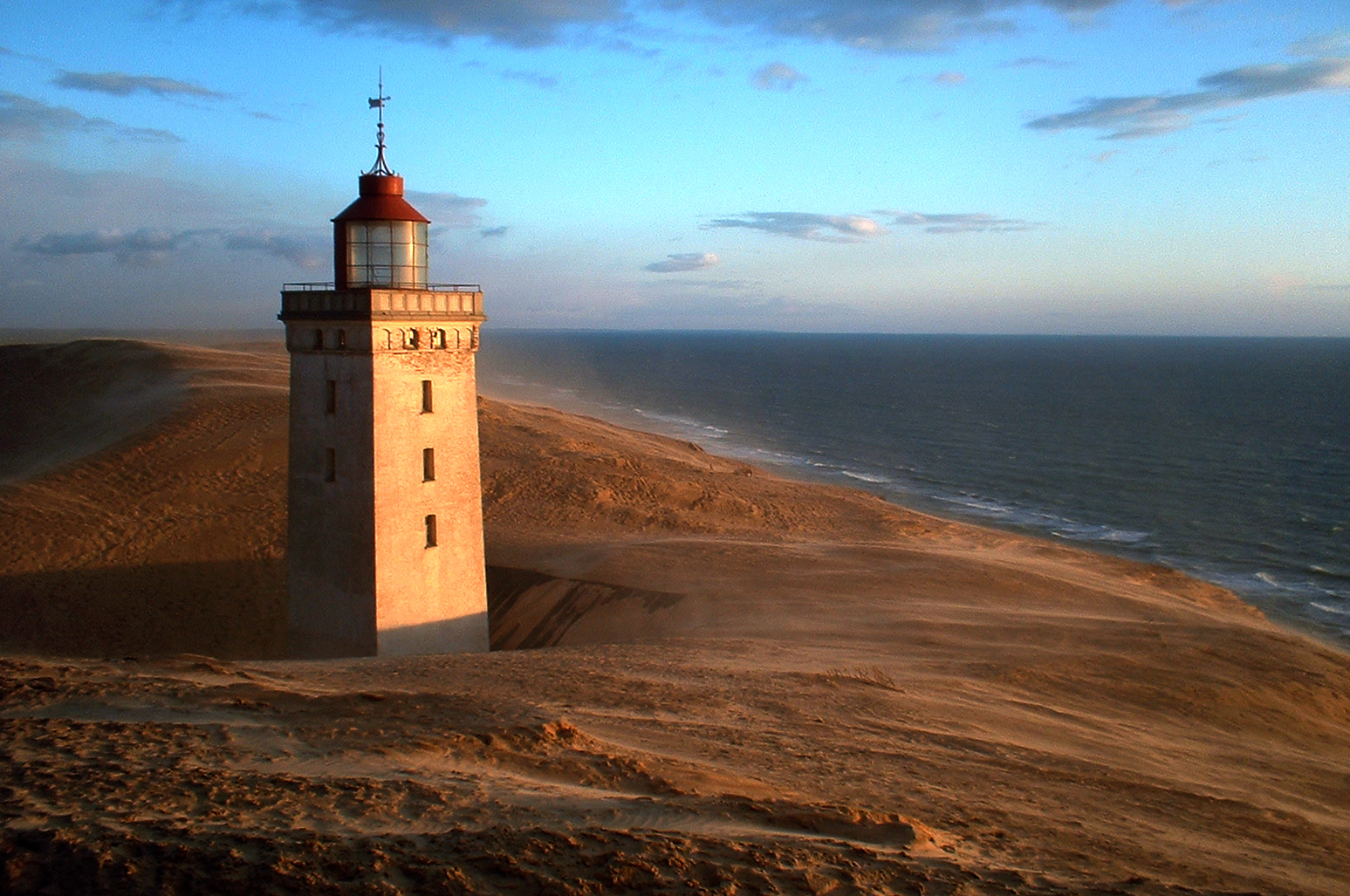 Lighthouse near Rubjerg Knude, Denmark. This lighthouse is being swallowed by a shifting sand dune.